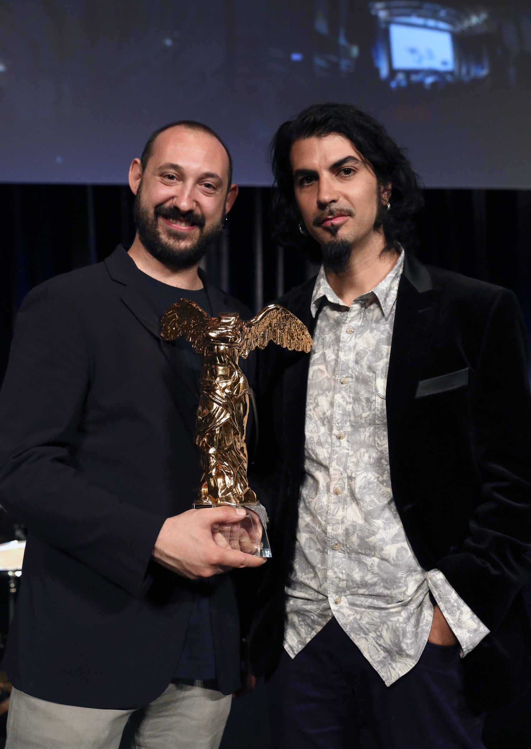 Memo Akten and Davide Quagliola ("Forms") with the Golden Nica of the Prix Ars Electronica 2013 in the category Computer Animation / Film / Visual Effects; Brucknerhaus, Linz, Upper Austria.